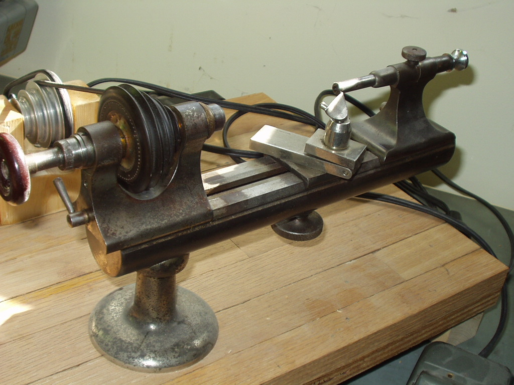 A watchmaker's lathe I now own.